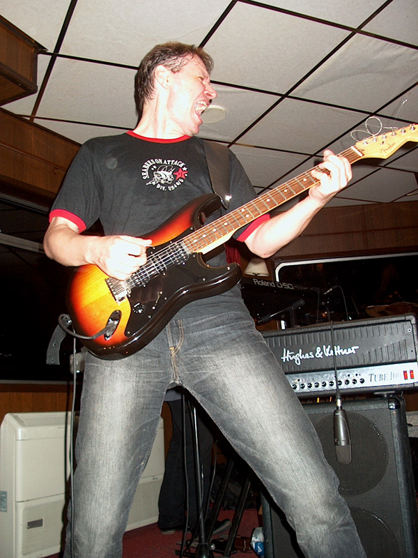 Endre Csillag (born October 12, 1957, Budapest) is a Hungarian guitarist, former member of rock band Edda and Bikini.